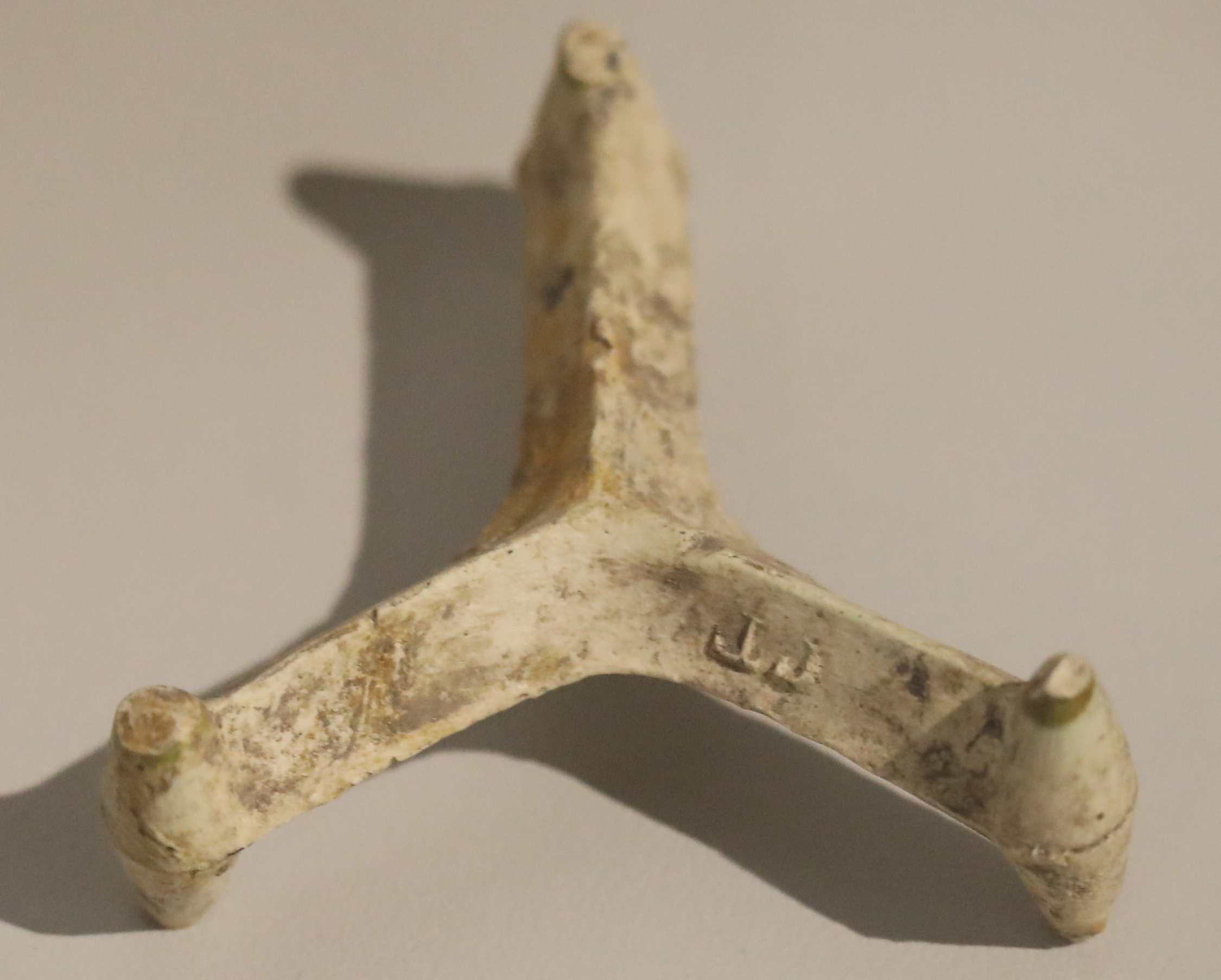 photo of a Tripod kiln stilt found during the excavation of the Linthorpe pottery site